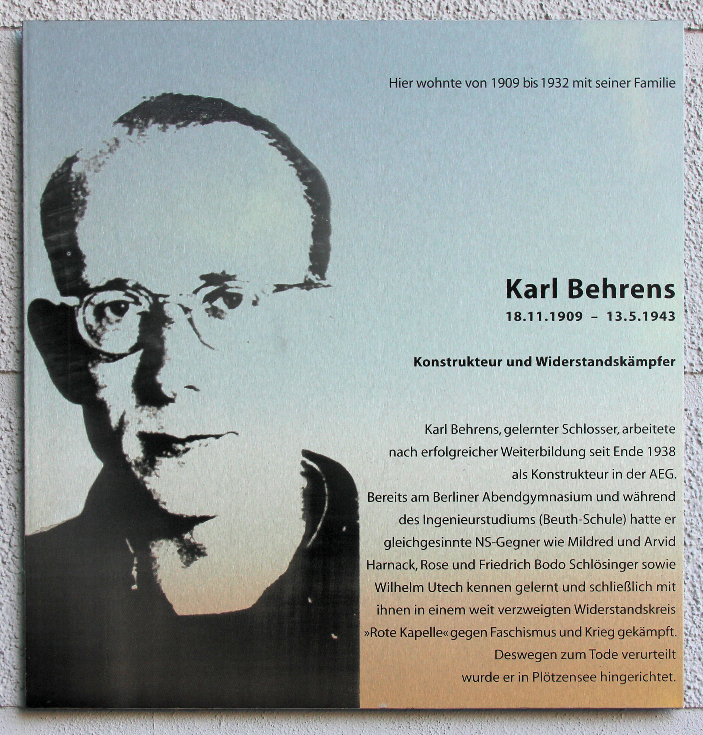 Memorial plaque, Karl Behrens, Yorckstraße 22, Berlin-Kreuzberg, Germany Koordinate:52°29′34″N 13°22′47″E / 52.49278°N 13.37972°E